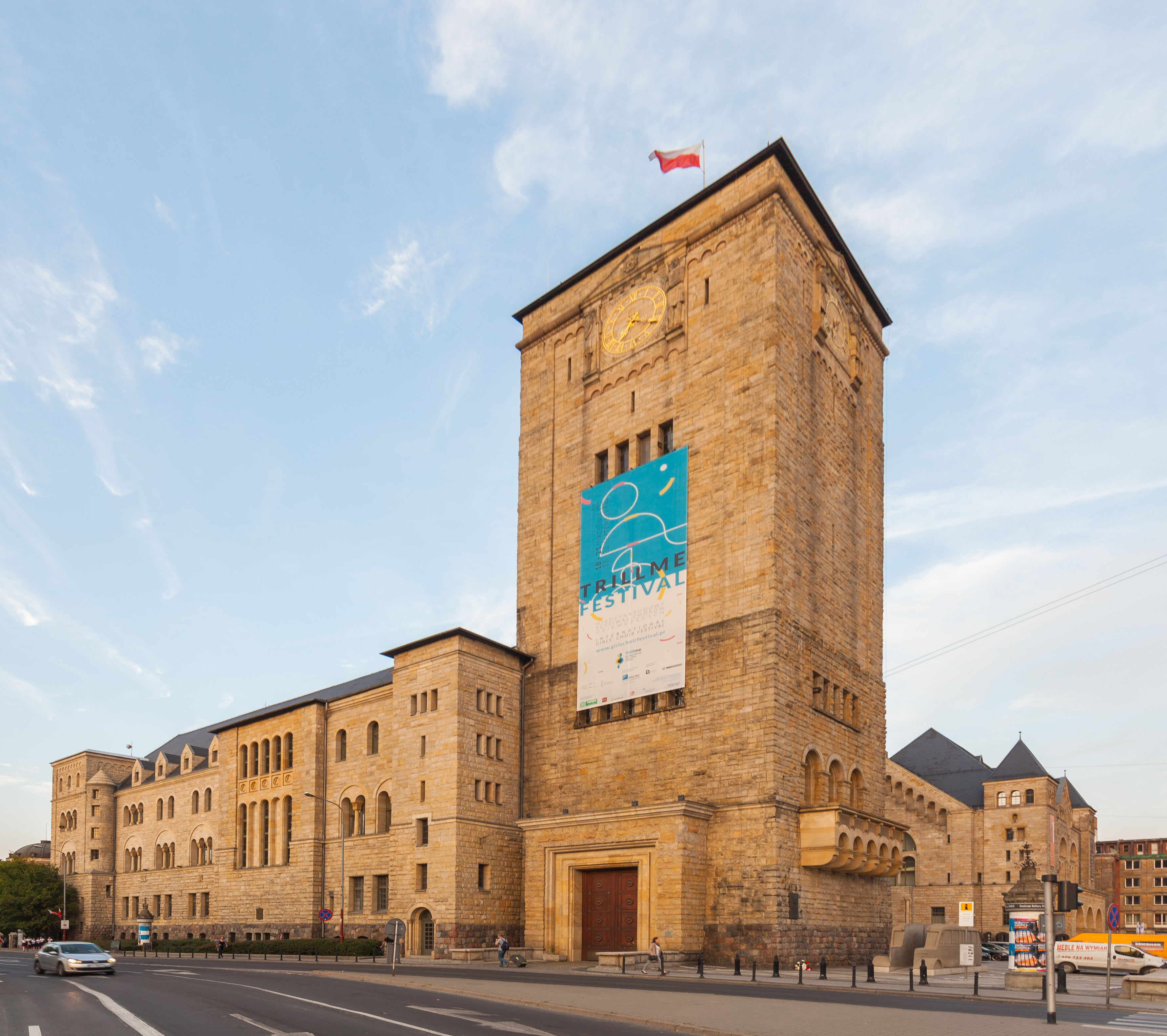 Imperial Castle, Poznan, Poland